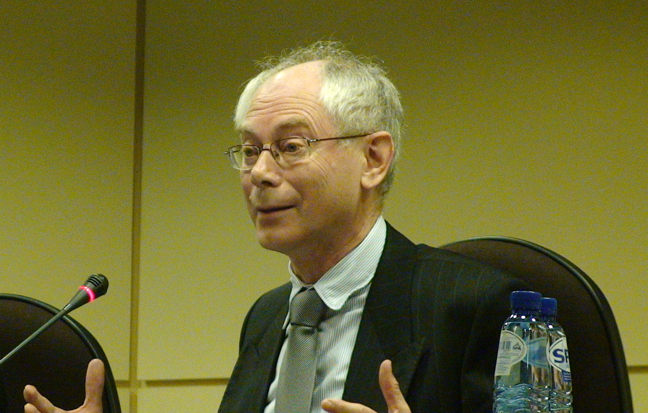 Prime Minister of Belgium Herman Van Rompuy in the Belgian Chamber of Representatives at the book launch of Bart De Wever (2008) Het kostbare weefsel [The Precious Tissue], Kapellen: Uitgeverij Pelckmans ISBN: 9789028939103.